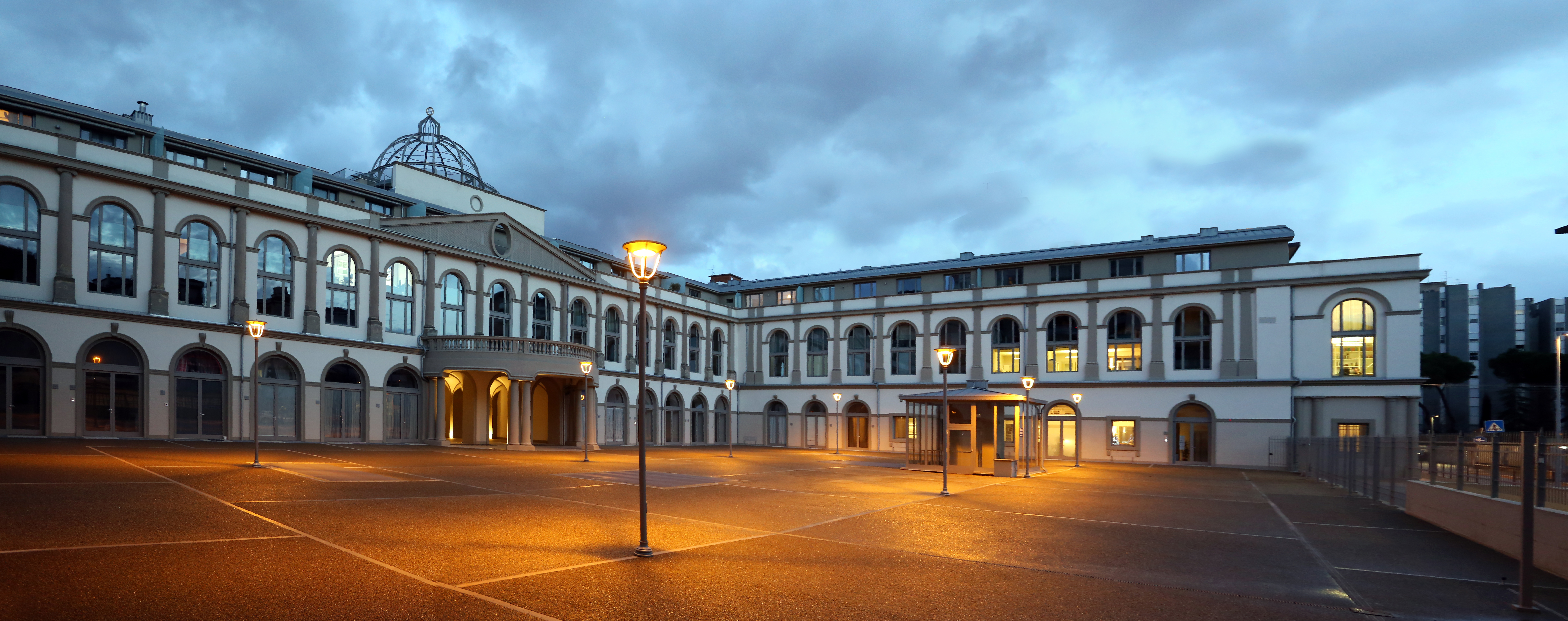 Villa San Donato in 2018, after renovation